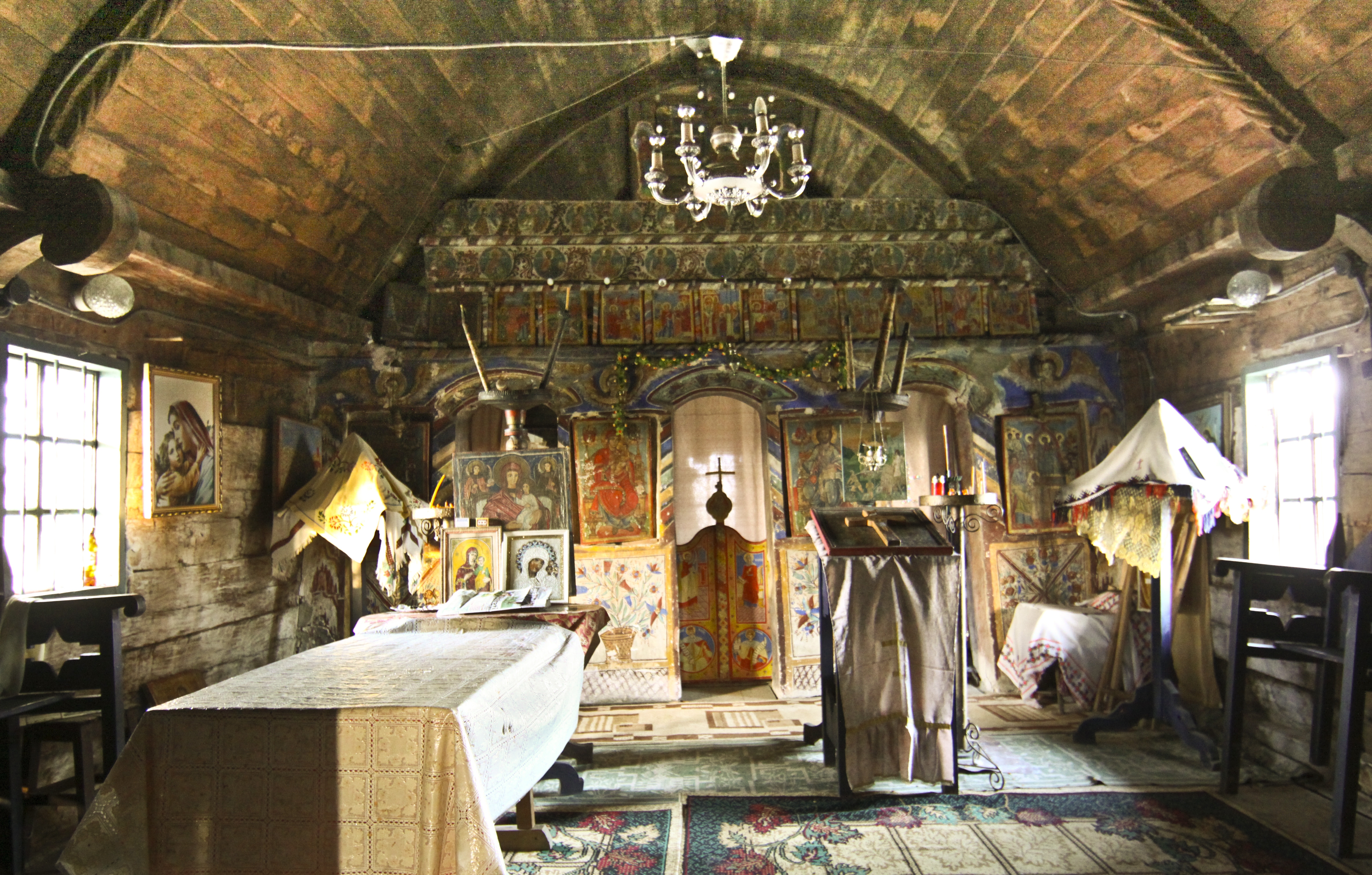 Wooden church in Bărbălani, Argeș county, Romania.